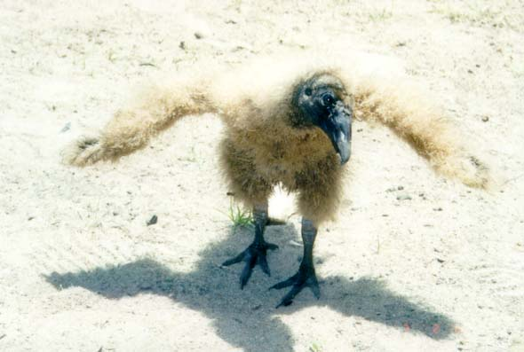 Juvenile bird